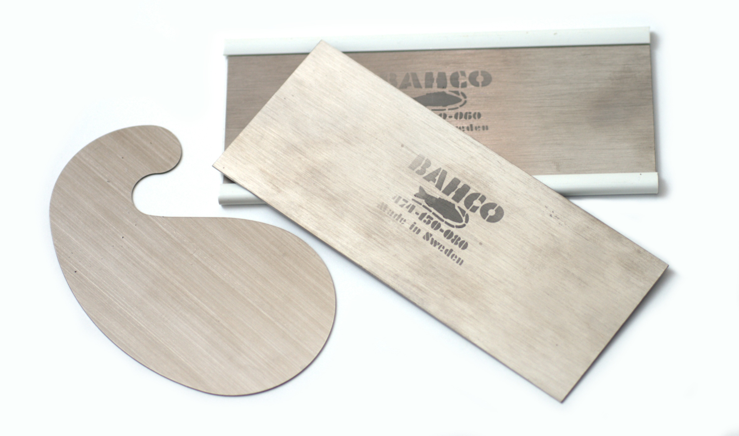 Card scrapers